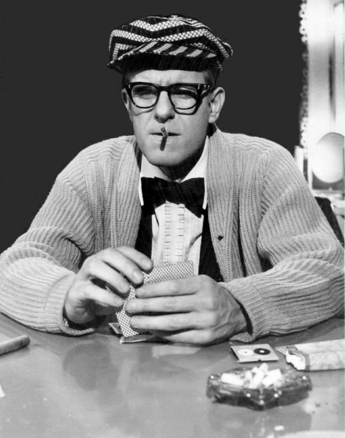 Photo of Jerry Van Dyke as Jerry Webster from the television program Accidental Family.